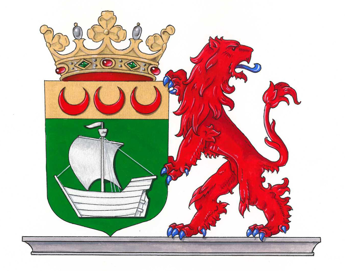 Coat of arms Koggenland, Dutch municipality